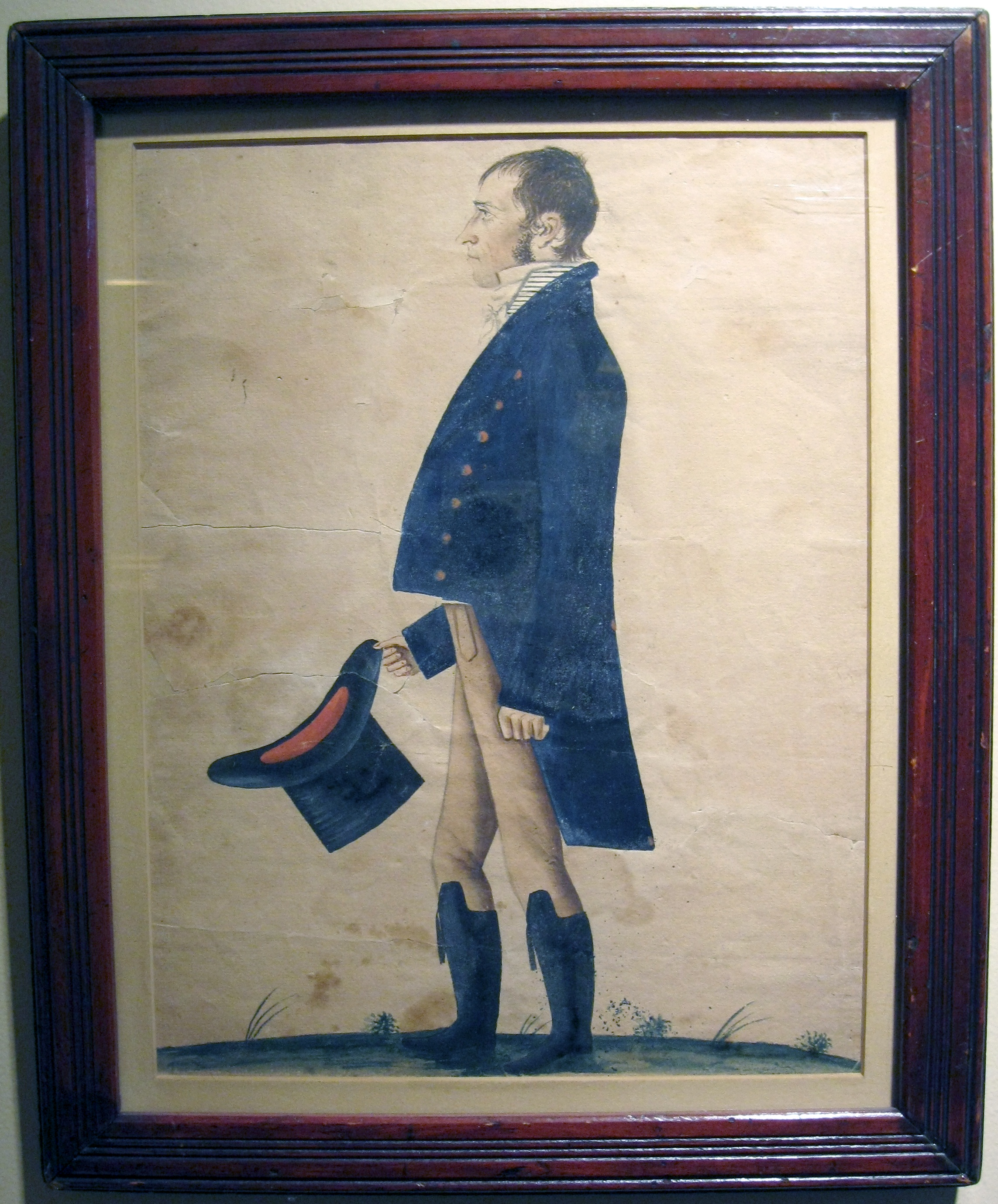 Portrait of Michael Ross (July 12, 1759 to June 20, 1819), founder of Williamsport, Pennsylvania, USA